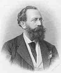 Salomon Hermann Mosenthal, playwriter